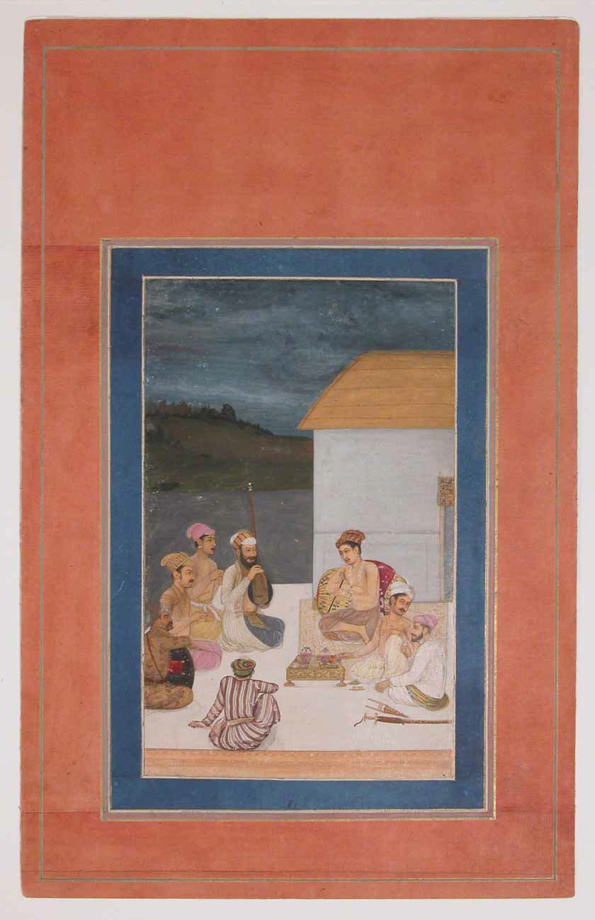 Back to the search results Fullscreen Images (2) Related Content Artworks (5) Exhibitions & Events (11) Timeline of Art History (1) "Portrait of a Noble in Gauzy White Costume", Folio from the Davis Album "A Gathering of Court Women", Folio from the Davis Album "Women on a Balcony", Folio from the Davis Album "Shah Jahan on a Terrace, Holding a Pendant Set With His Portrait", Folio from the Shah Jahan Album Hindus Conversing before a Shrine Hindus Conversing before a Shrine Browse current and upcoming exhibitions and events. Exhibitions: Turkmen Jewelry from the Collection of Marshall and Marilyn R. Wolf From October 9, 2012 Events: Arts of the Islamic World October 9, 2012 Arts of the Islamic World October 10, 2012 Arts of the Islamic World October 11, 2012 Arts of the Islamic World October 12, 2012 Arts of the Islamic World October 13, 2012 Islamic Book Arts October 13, 2012 Events: Islamic Book Arts October 13, 2012 From Paint to Pattern: The Art of Silk Painting October 13, 2012 Islamic Book Arts October 13, 2012 Islamic Book Arts October 13, 2012 South Asia, 1600–1800 A.D. "Prince Sultan Parviz, Son of Jahangir, with his Courtiers and Musicians", Folio from the Davis Album Object Name: Illustrated album leaf Reign: Jahangir (1605–27) Date: 17th century Geography: India Medium: Ink, opaque watercolor, and gold on paper Dimensions: 13.12 in. high 8.25 in. wide (33.3 cm high 21 cm wide) Classification: Codices Credit Line: Theodore M. Davis Collection, Bequest of Theodore M. Davis, 1915 Accession Number: 30.95.174.18 This artwork is not on display